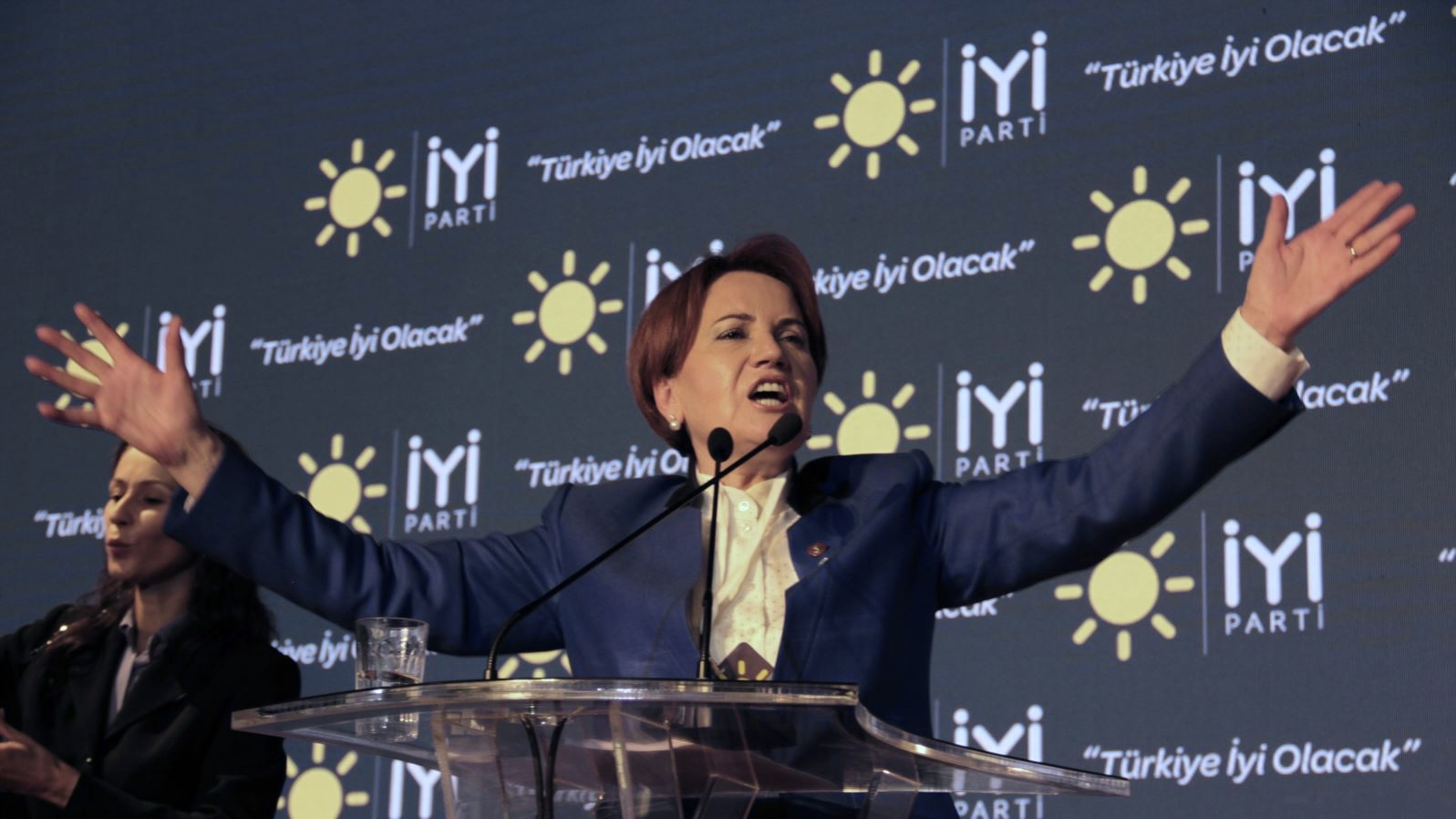 İYİ Party leader Meral Akşener making a speech at her party's first congress